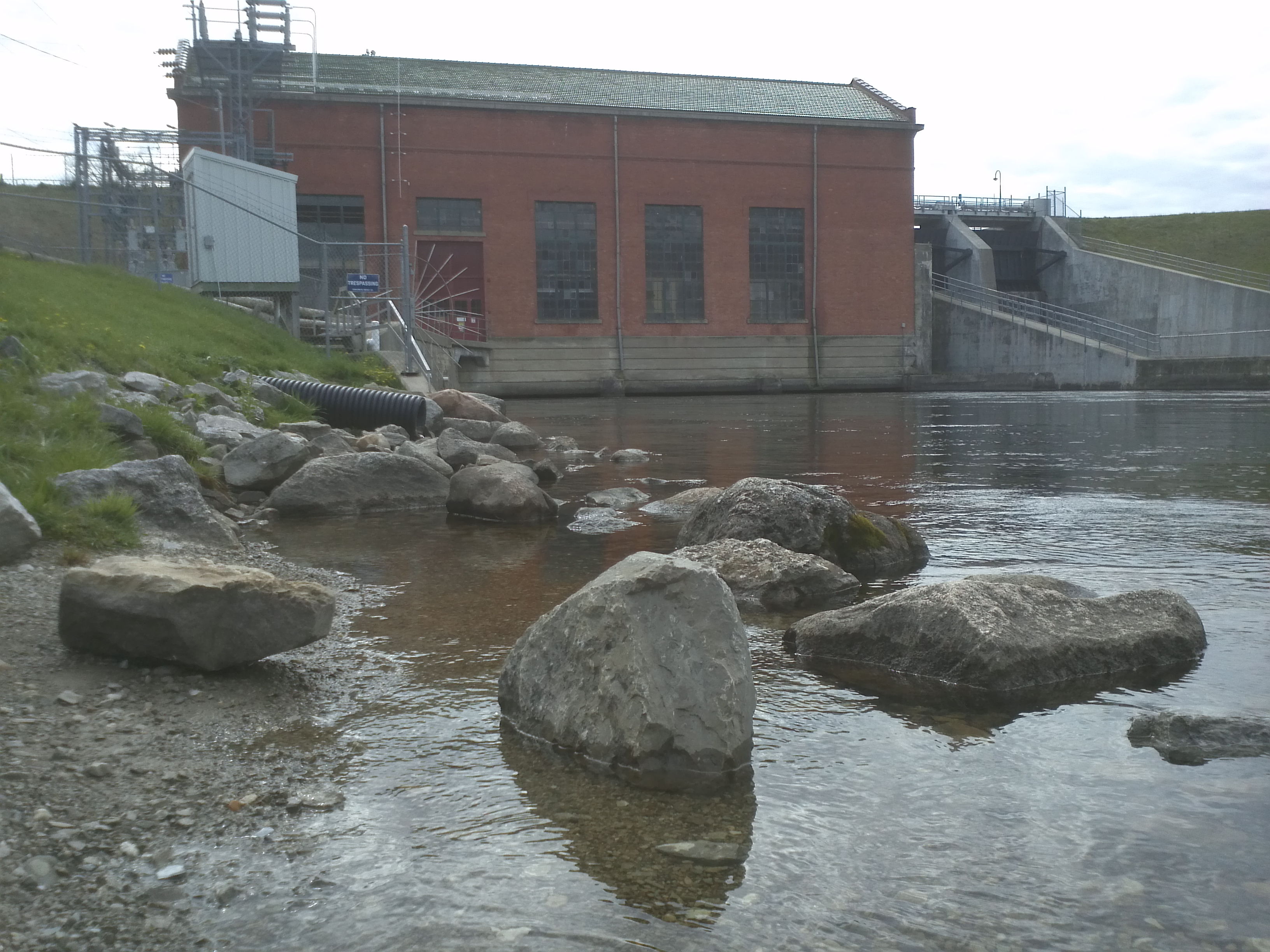 Photo of Cooke Dam from lower AuSable River. Spring 2012